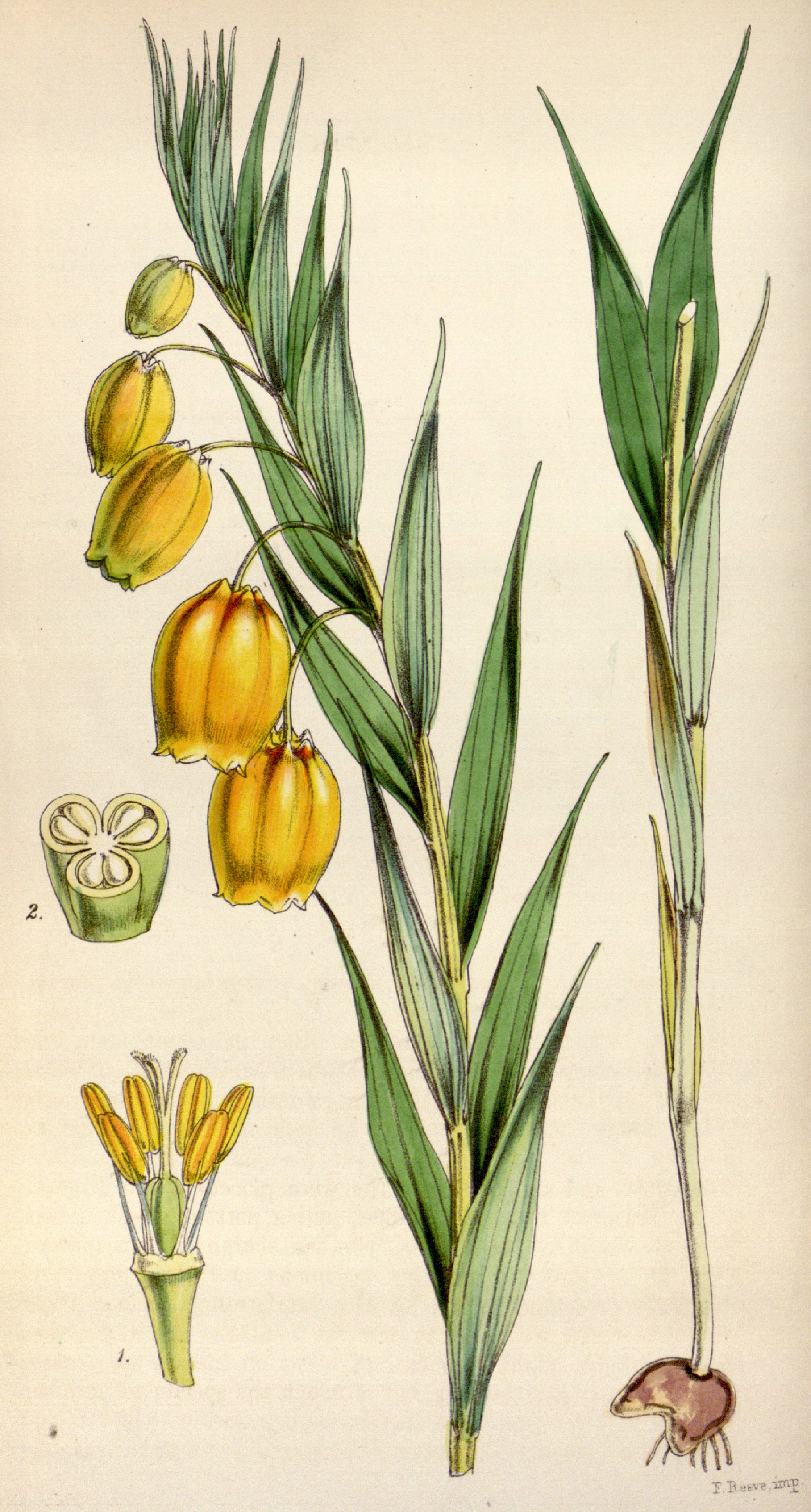 Sandersonia aurantiaca